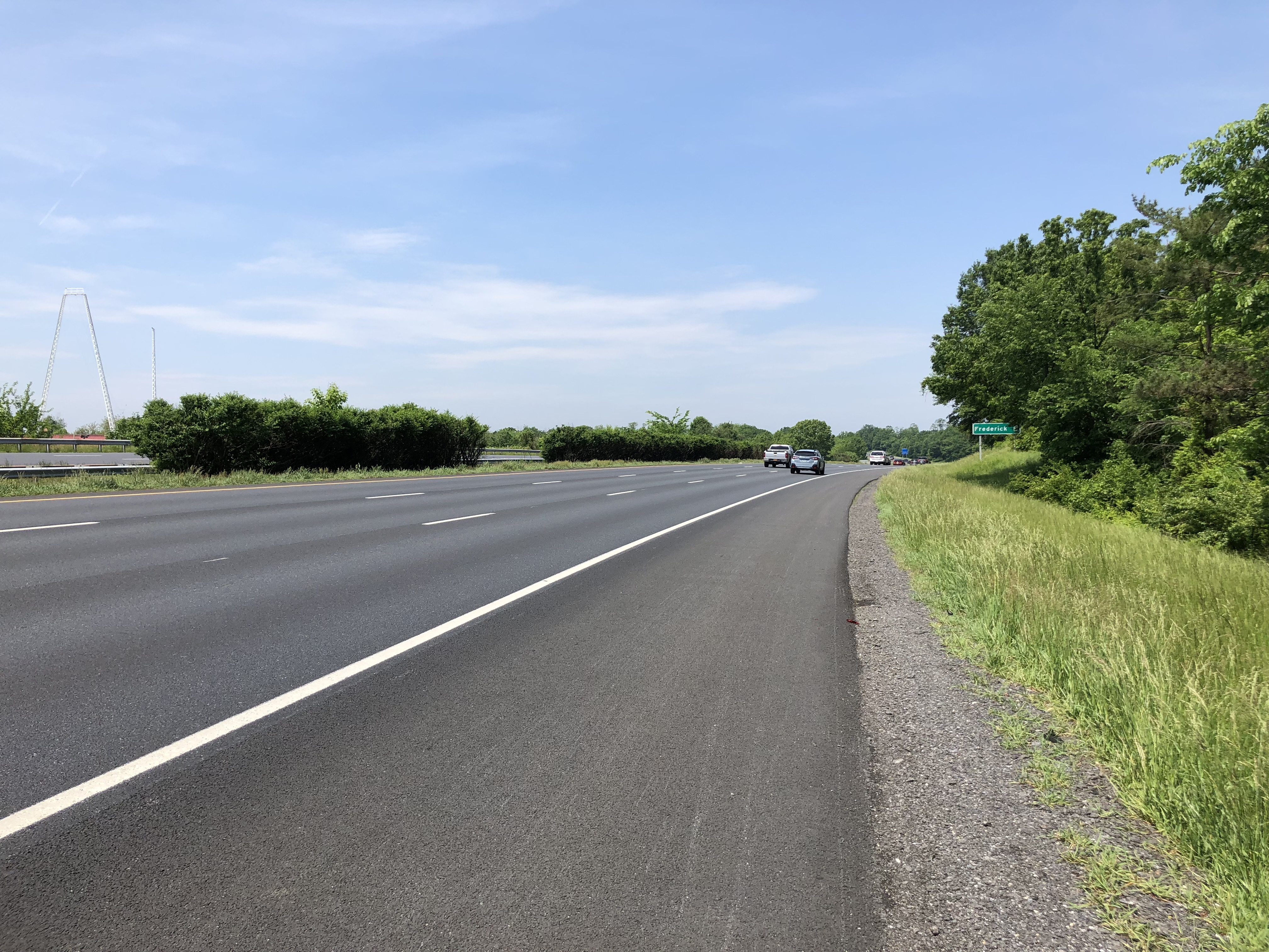 View west along Interstate 70 and U.S. Route 40 (Baltimore National Pike) between Exit 62 and Exit 59 in New Market, Frederick County, Maryland